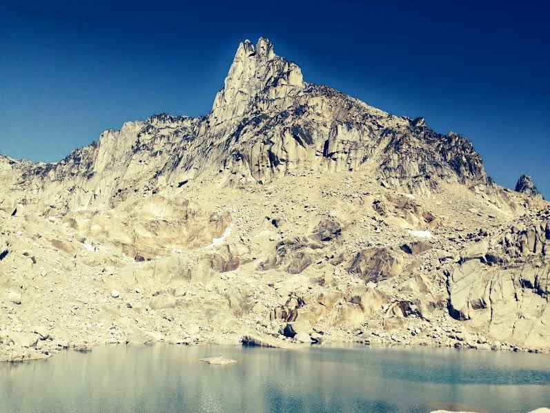 Crescent Spire, Bugaboos, Purcell Range, British Colombia, Canada